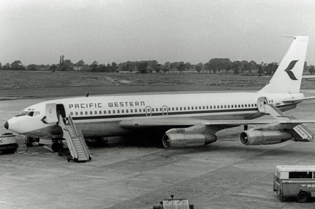 Boeing 707-138B CF-PWV of Pacific Western Airlines in 1969